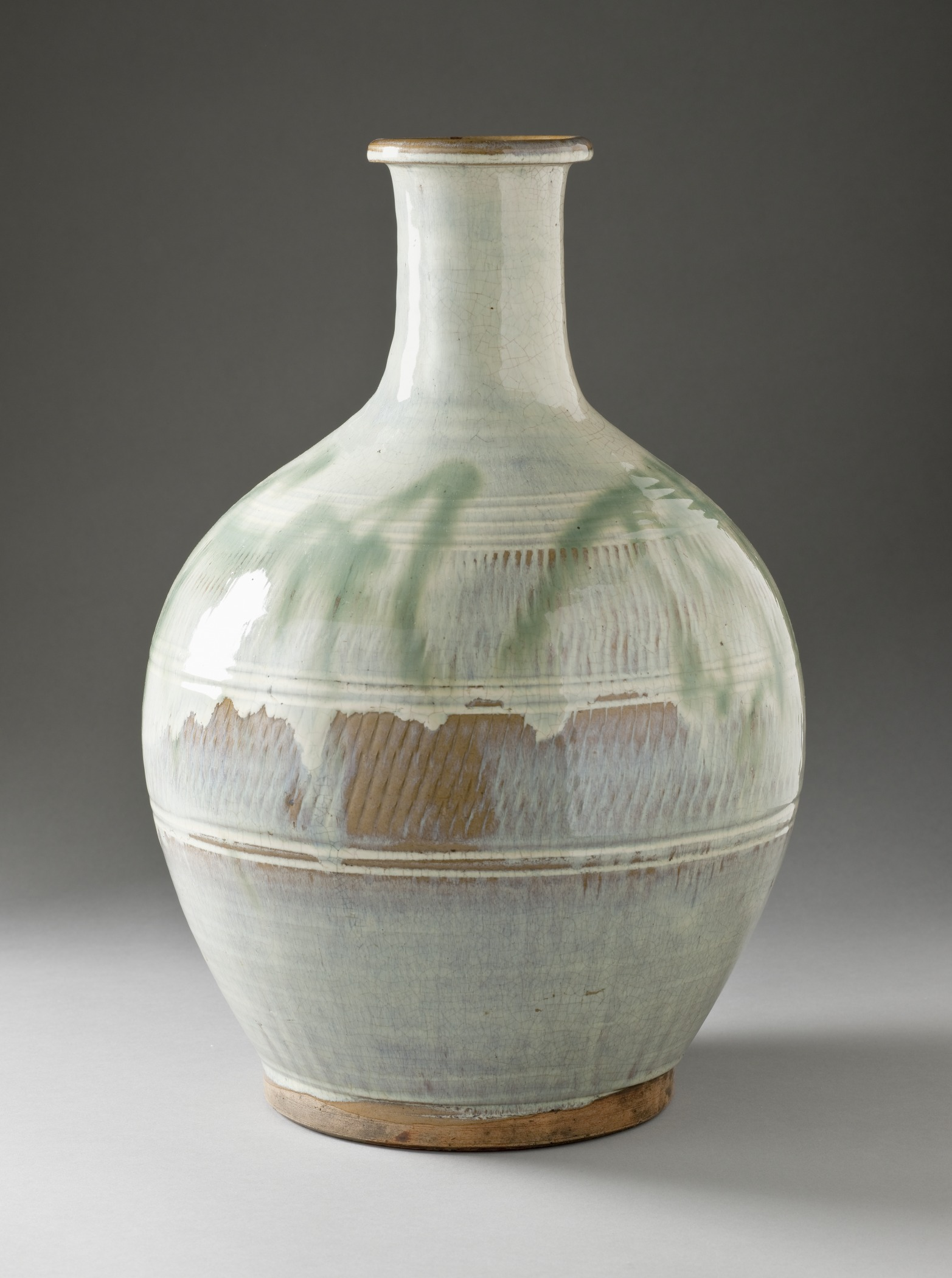 Japan, Meiji period, 1868-1912, 19th century Alternate Title: Tokkuri Furnishings; Accessories Onta ware; stoneware with white and green glazes Gift of James D. and Veronica H. Roorda (M.2008.264.24) Japanese Art